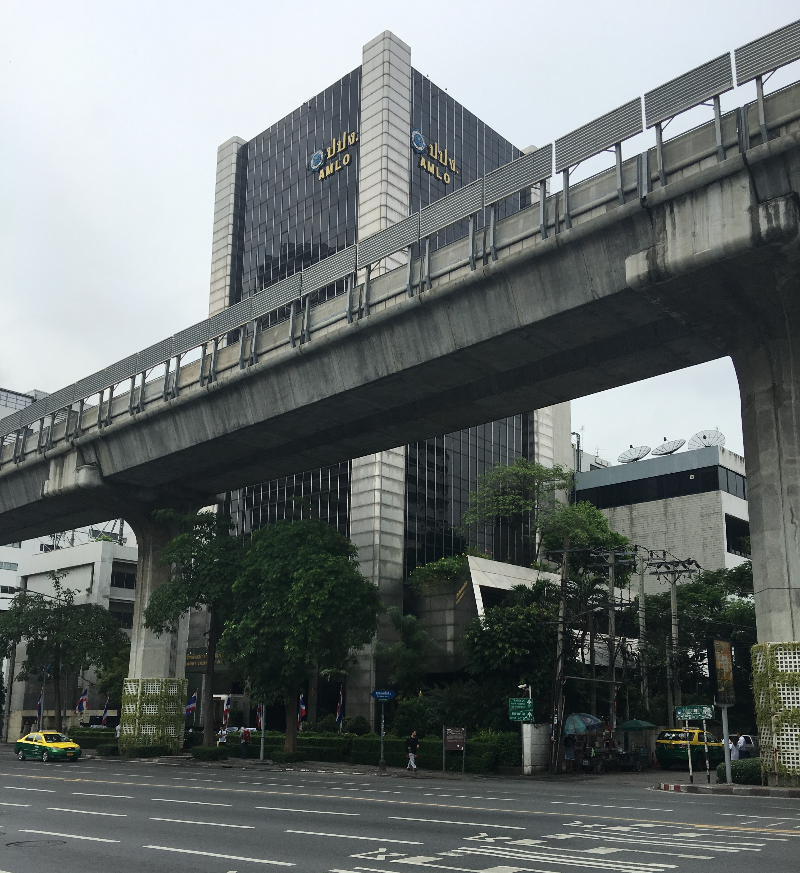 Anti Money Laundering Office of Thailand, on the Phaya Thai Road nearby Phaya Thai Station, in north-central Bangkok.